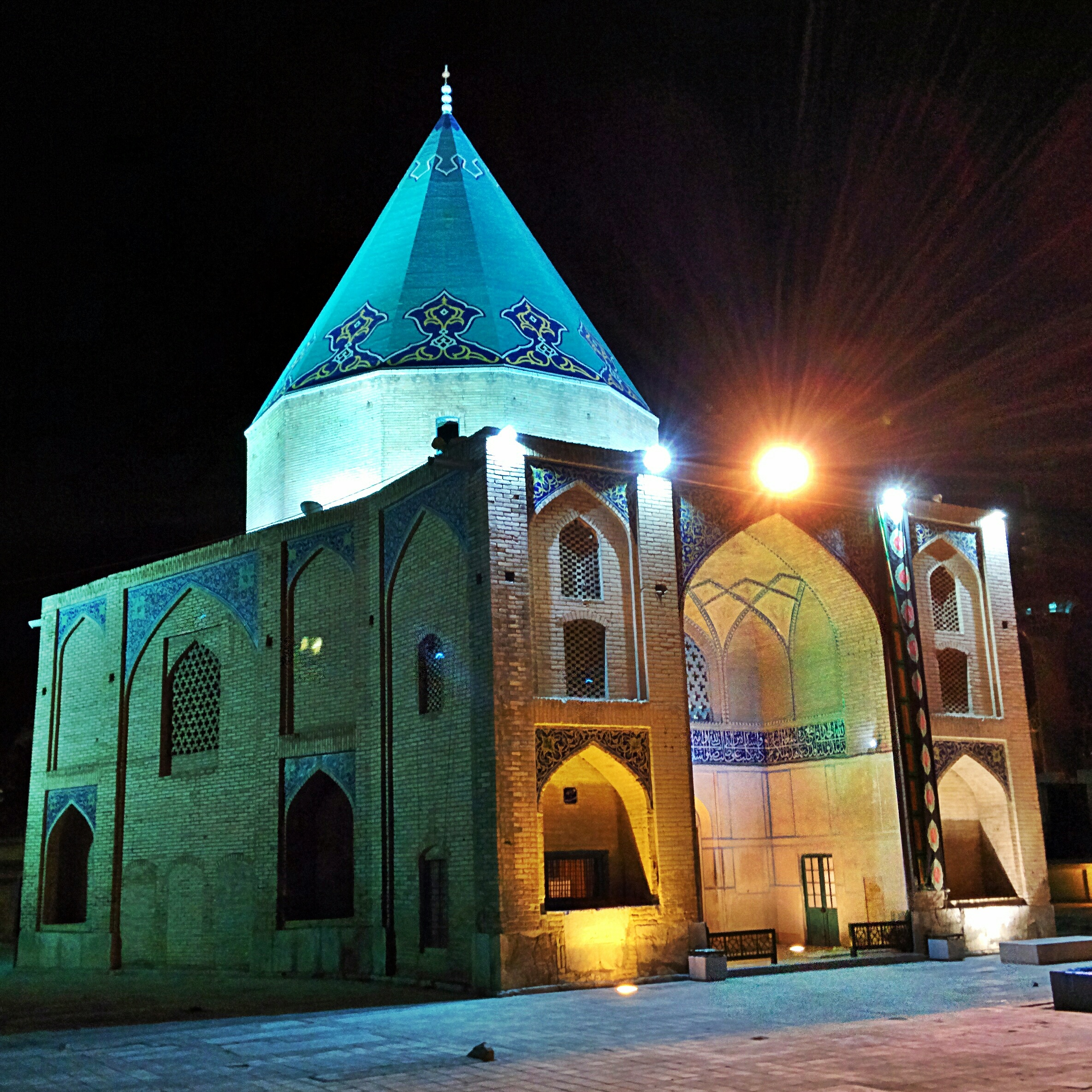 Baba Rokneddin Beyzayi was a Persian mystic and poet in 8th century.